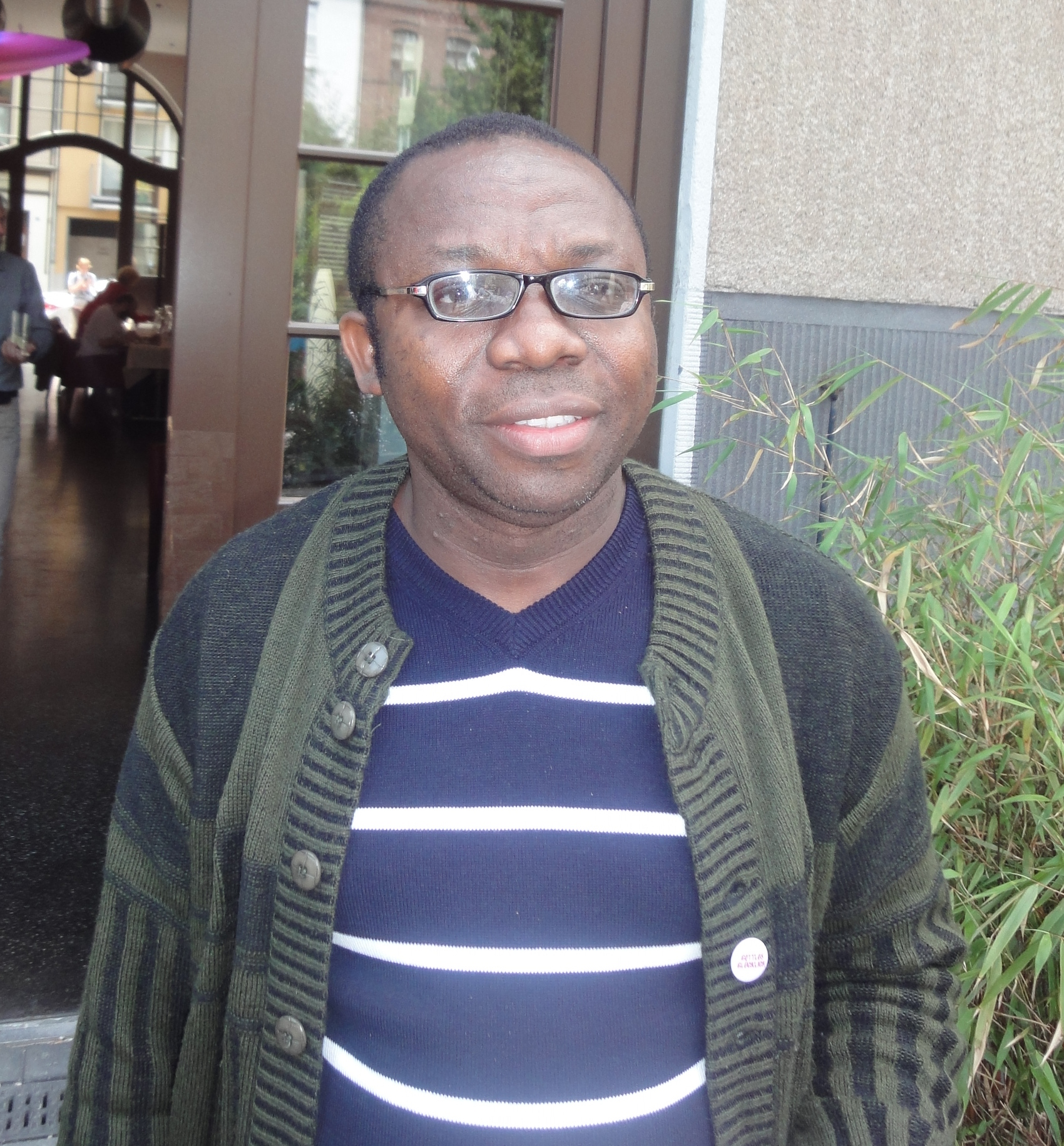 human rights activist, humanist